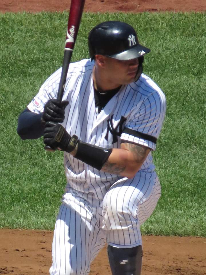 Gary Sanchez in 2019